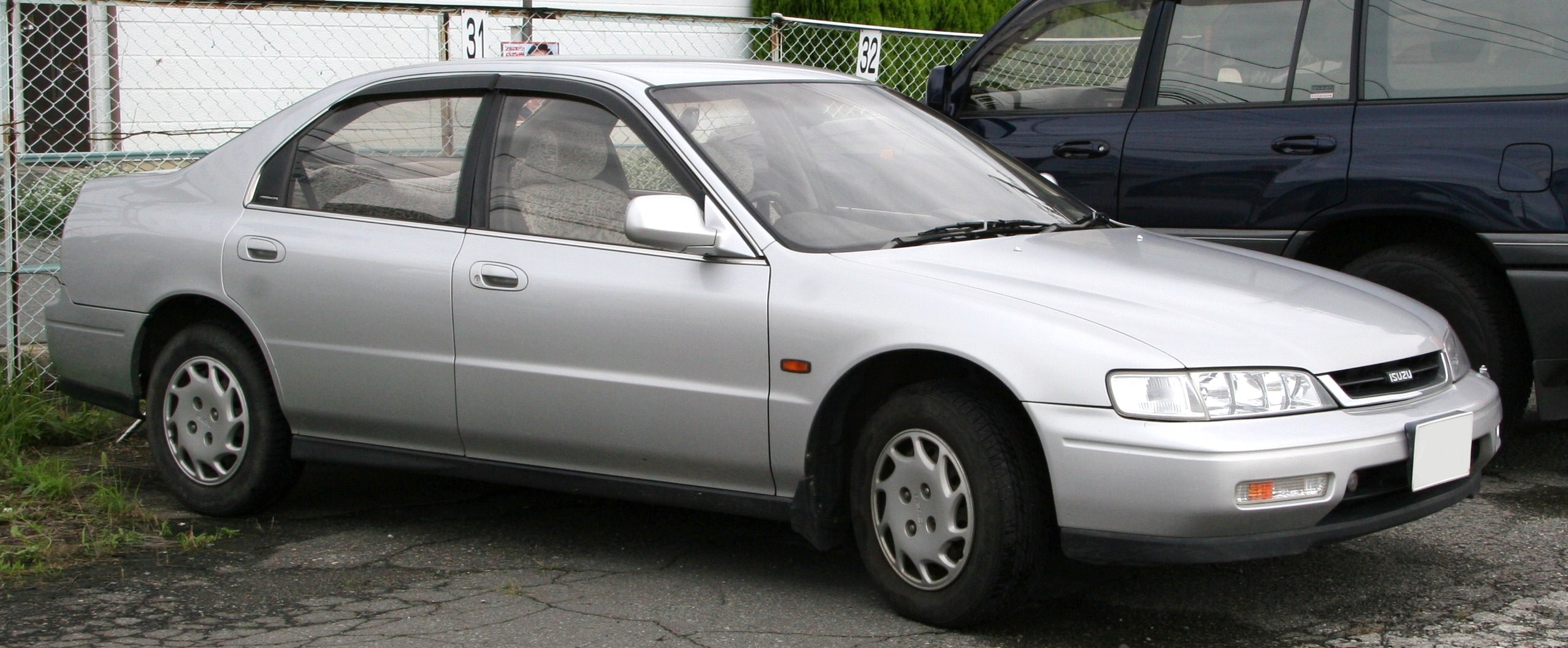 Isuzu Asuka